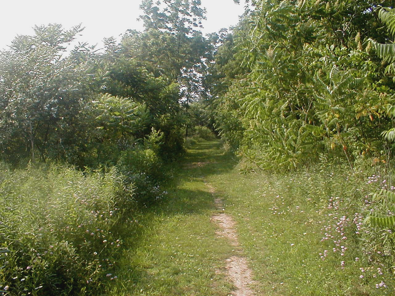 A view of the undeveloped Stockertown Rail Trail, looking north. Its intersection with Dogwood Lane is just out of view.